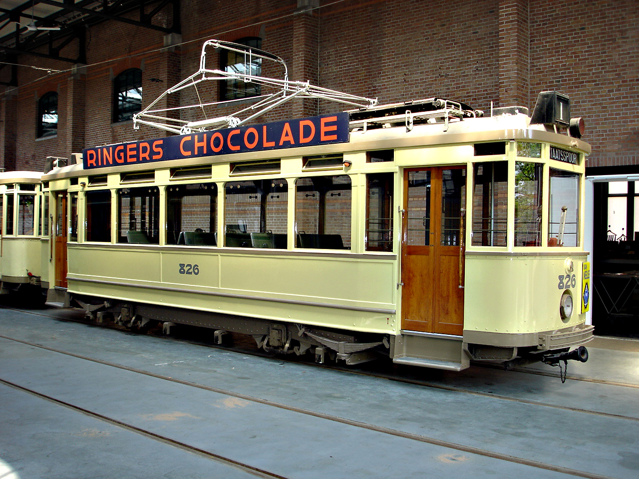 Tram 826, HTM, HOVM, The Hague, The Netherlands